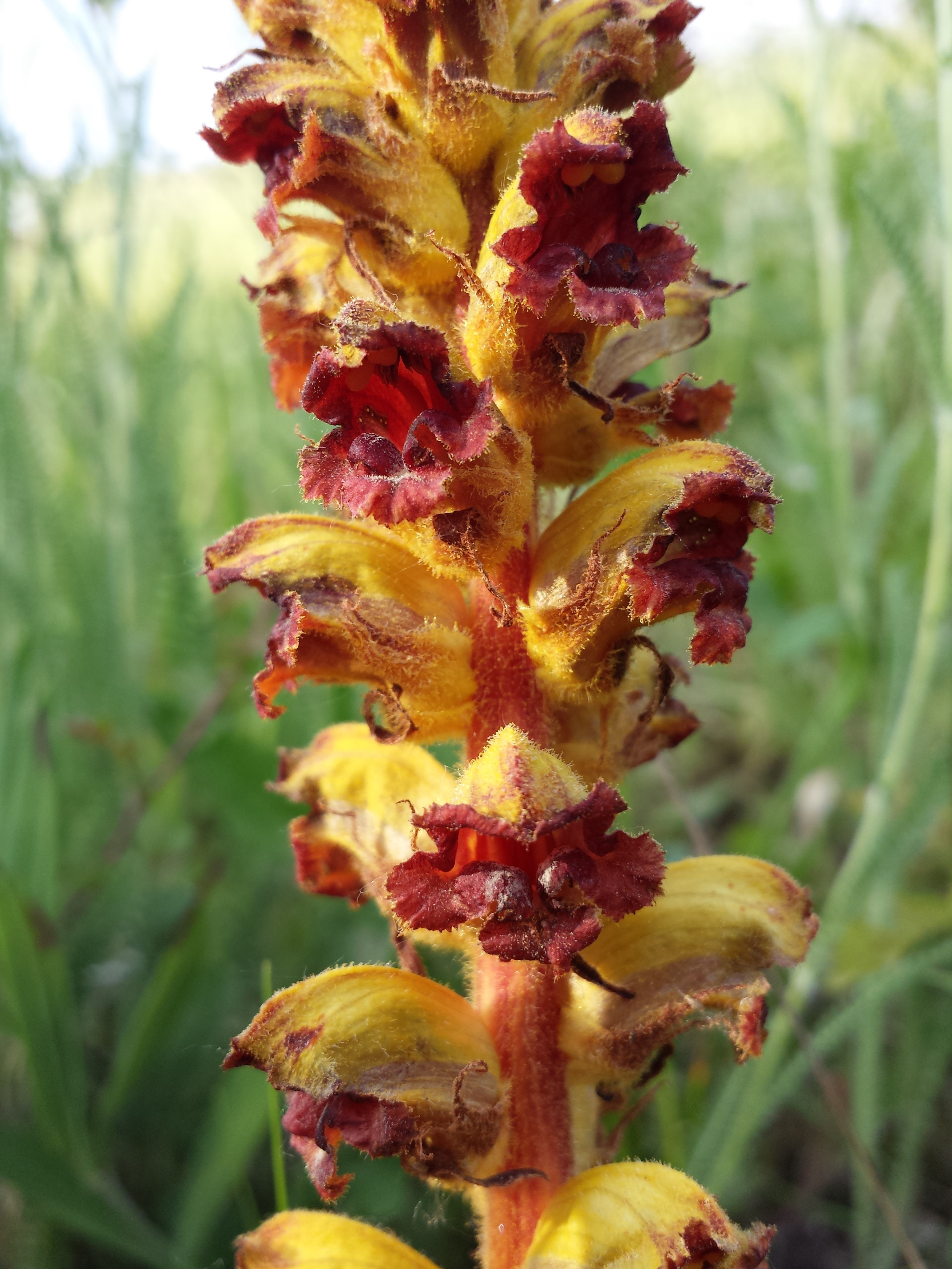 Florescence Taxonym: Orobanche gracilis ss Fischer et al. EfÖLS 2008 ISBN 978-3-85474-187-9 Location: Neue Donau, district Korneuburg, Lower Austria - ca. 160 m a.s.l. Habitat: dry meadows